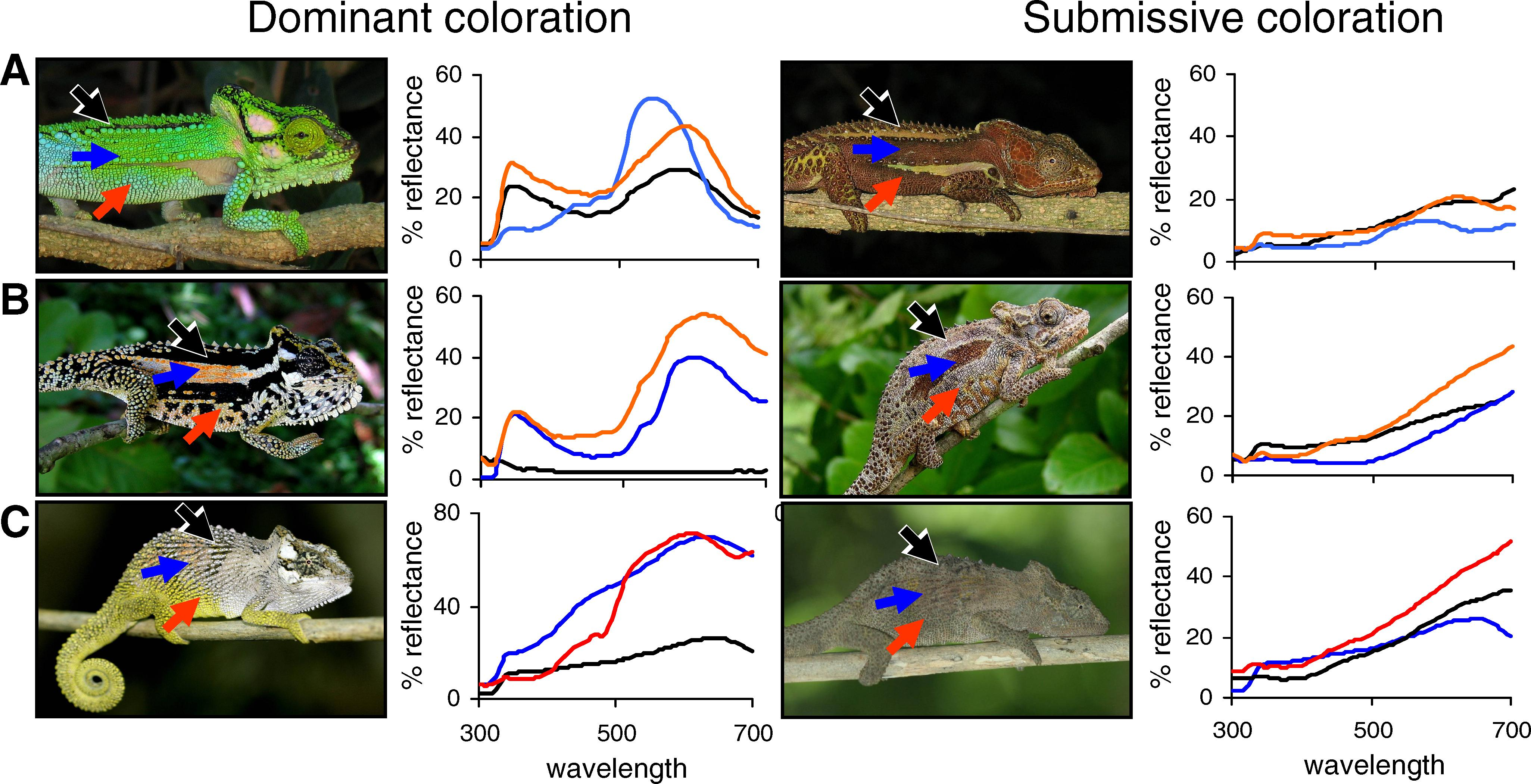 Social display, colours and reflectance spectra from different species of African dwarf chameleons (Bradypodion spp.). Three species (A, B, C) are shown with dominant coloration (left) versus submissive coloration (right).